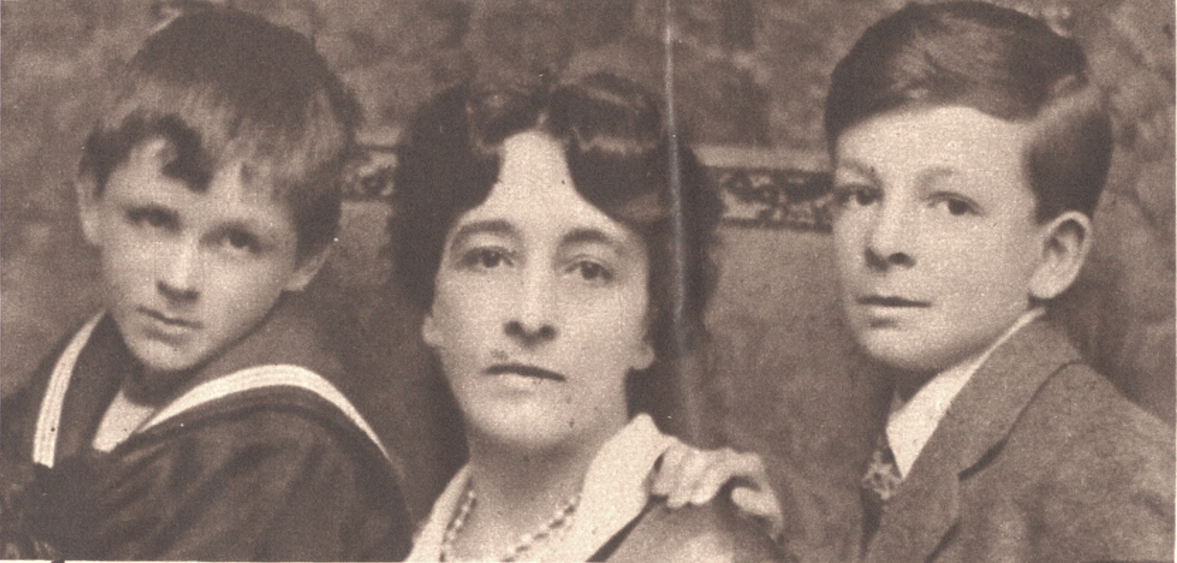 Lady Beatty, daughter of the late Marshall Field, and her sons, David and Peter.